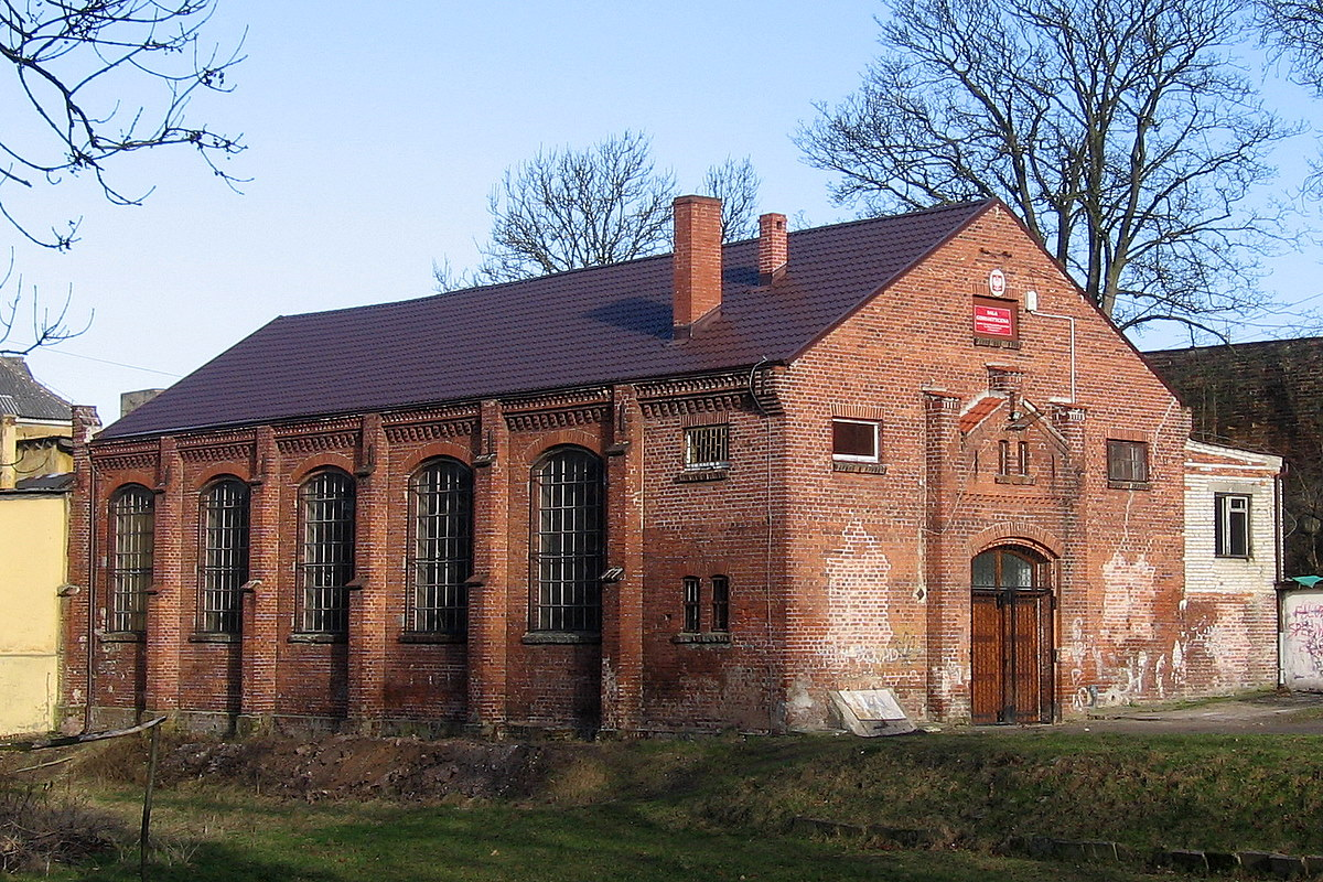 Gym of High School in Trzebiatów, Poland